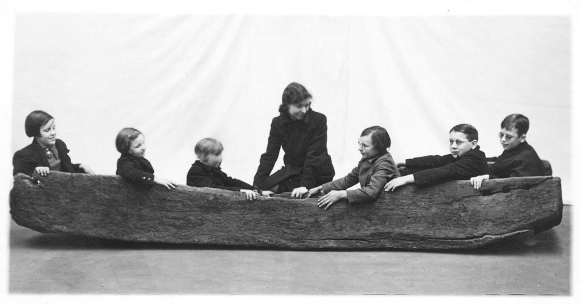 Several blind children and their teacher are sitting in the prehistoric dug out canoe. The canoe was discovered in the River Wear at South Hylton in 1888. Photograph taken at Sunderland Museum and Art Gallery. “To them, their fingers are eyes” From 1913, John Alfred Charlton Deas, a former curator at Sunderland Museum, organised several handling sessions for the blind, first offering an invitation to the children from the Sunderland Council Blind School, to handle a few of the collections at Sunderland Museum, which was ‘eagerly accepted’. Ref: TWCMS:K13802 view the set (Copyright) We're happy for you to share this digital image within the spirit of The Commons. Please cite 'Tyne & Wear Archives & Museums' when reusing. Certain restrictions on high quality reproductions and commercial use of the original physical version apply though; if you're unsure - for image licensing enquiries please follow this link